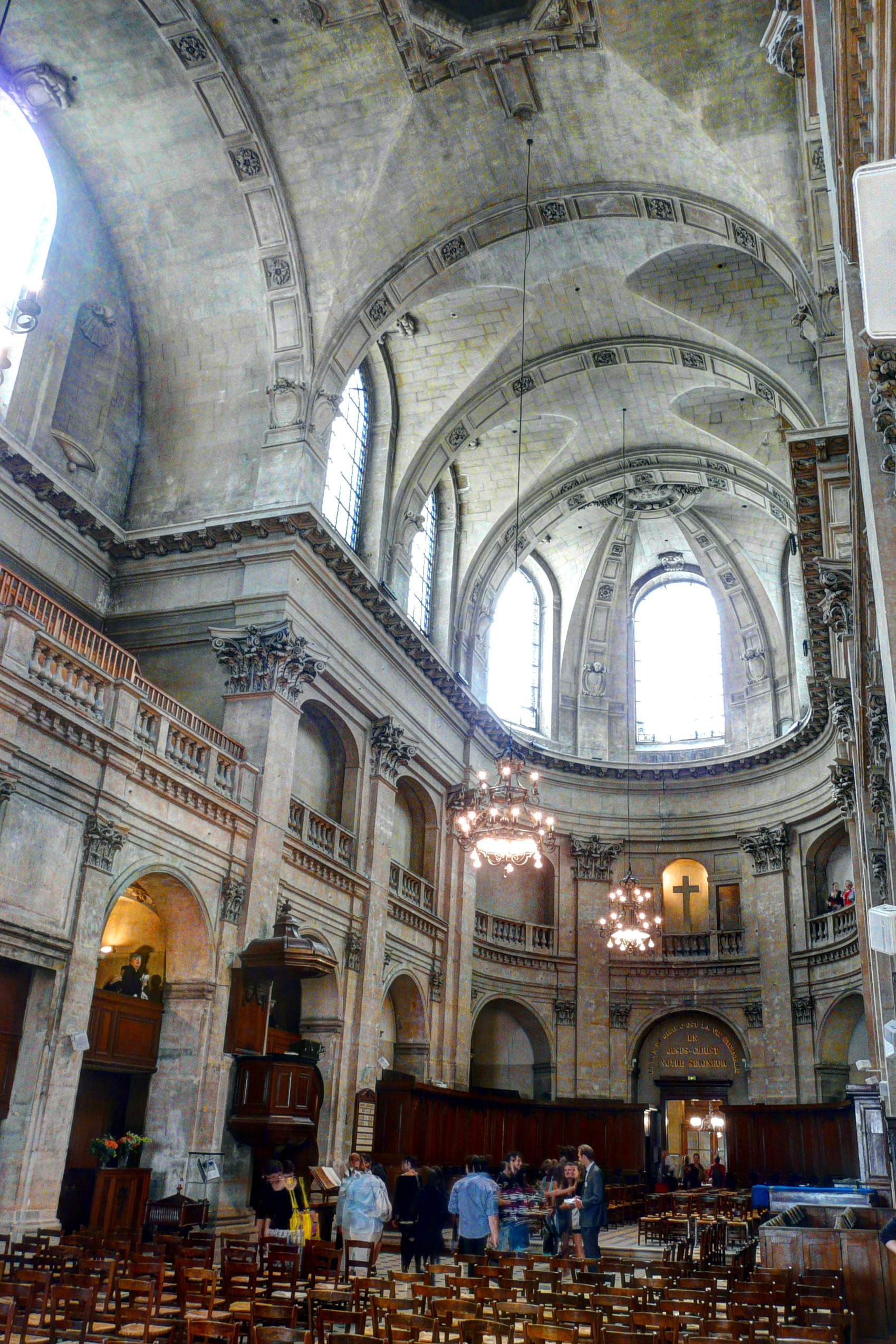 Temple protestant de l'Oratoire du Louvre - nef